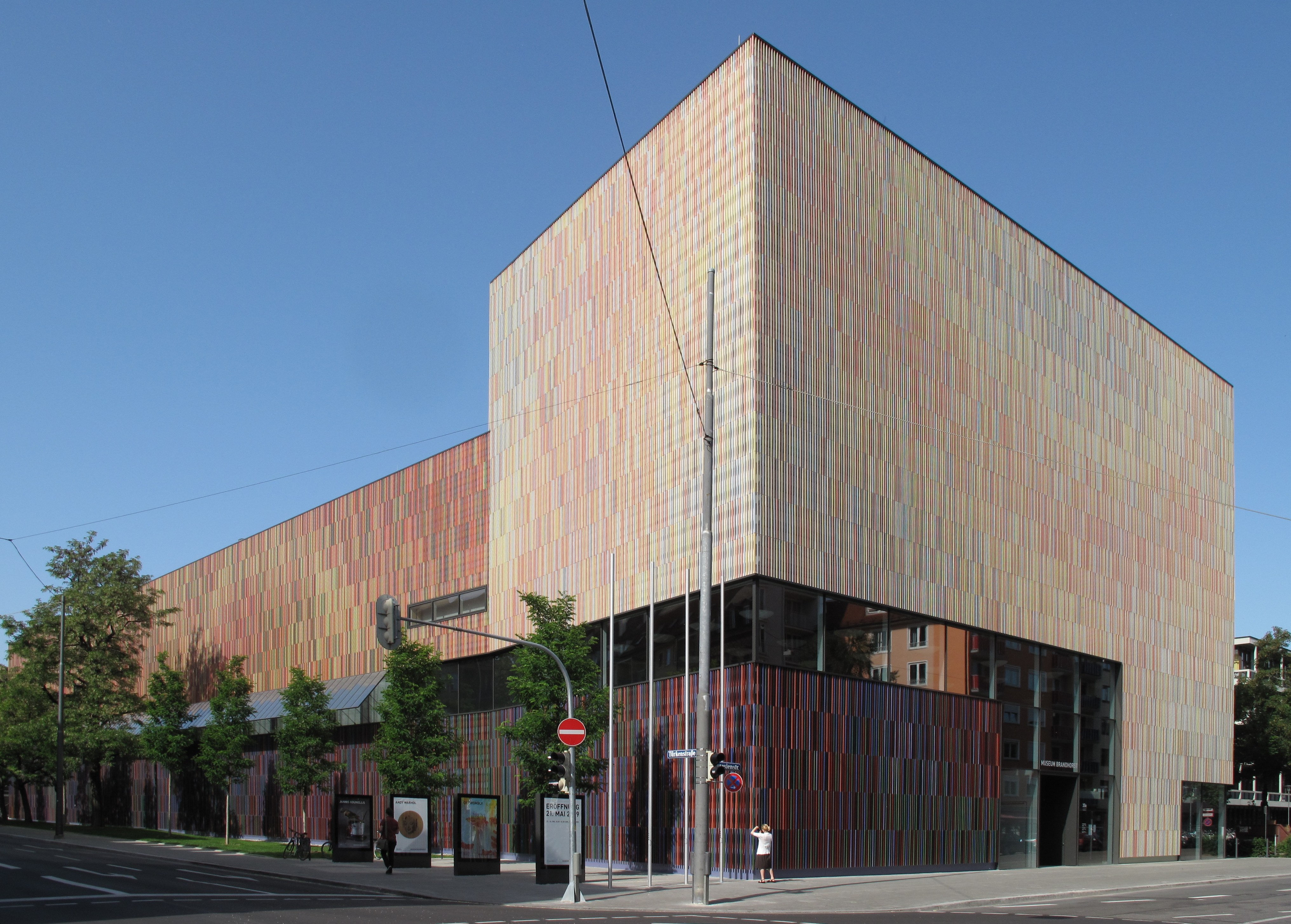 Museum Brandhorst, Munich, main entrance on the north side of the building and the east side of the building of Sauerbruch Hutton